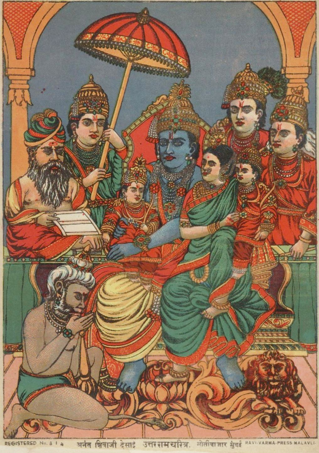 Rama's coronation: Rama depicted with Sita and with their sons and his brothers and Hanuman